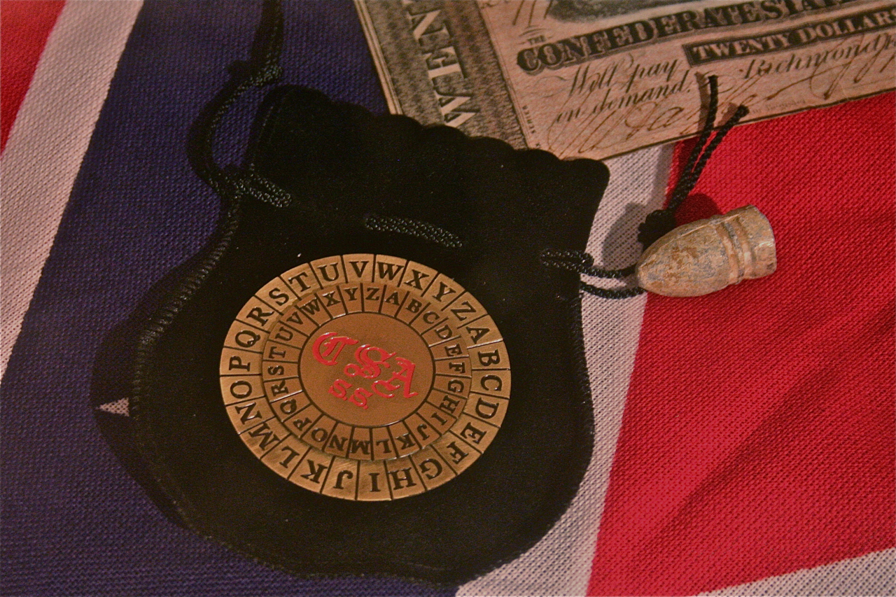 reproduction of a Confederate Cypher Disk on display that the National Cryptologic Museum in Fort Meade, MD